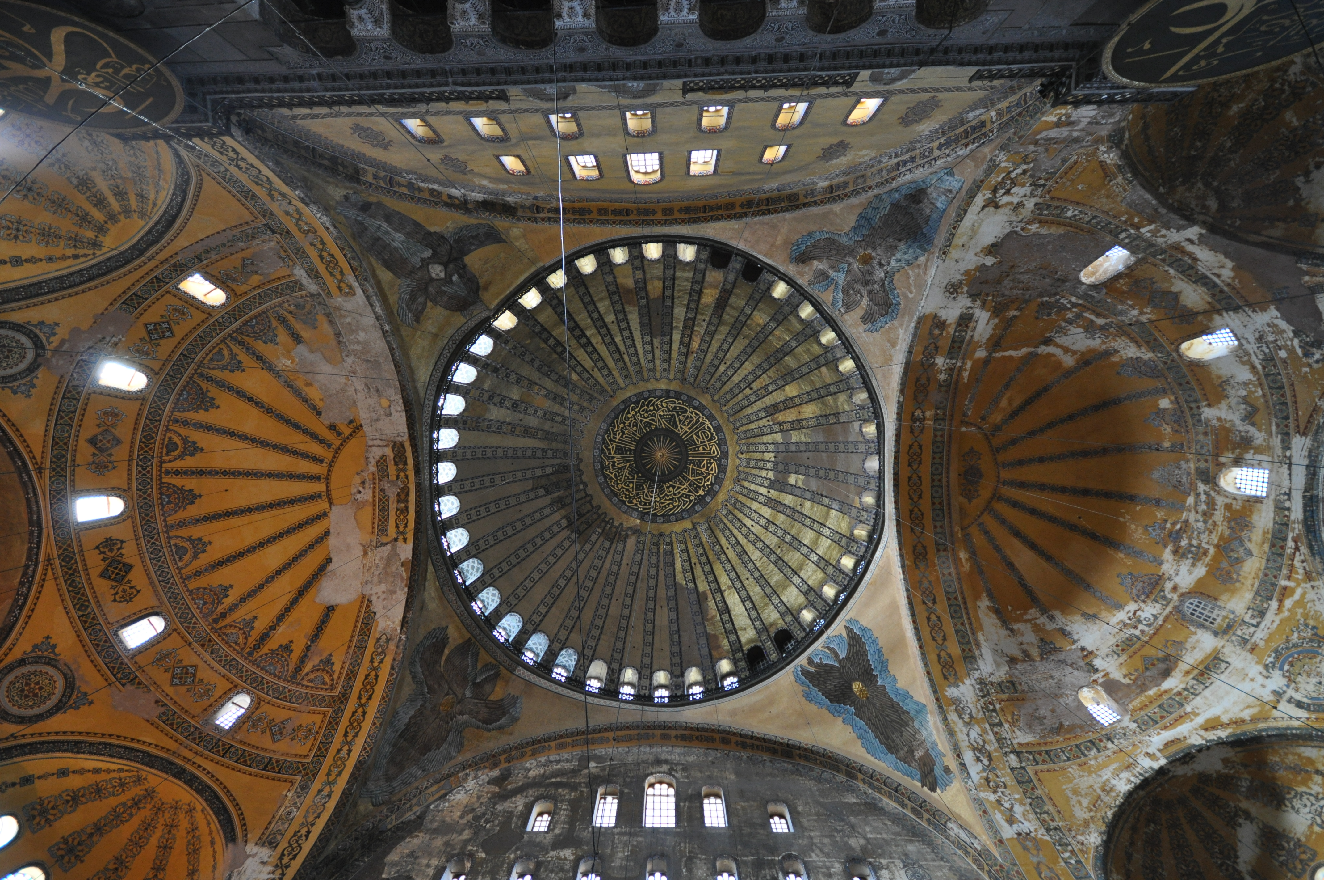 The vast interior has a complex structure. The nave is covered by a central dome which at its maximum is 55.6 m (182 ft 5 in) from floor level and rests on an arcade of 40 arched windows. Repairs to its structure have left the dome somewhat elliptical, with the diameter varying between 31.24 m (102 ft 6 in) and 30.86 m (101 ft 3 in). At the western entrance side and eastern liturgical side, there are arched openings extended by half domes of identical diameter to the central dome, carried on smaller semi-domed exedras; a hierarchy of dome-headed elements built up to create a vast oblong interior crowned by the central dome, with a clear span of 76.2 m (250 ft 0 in)